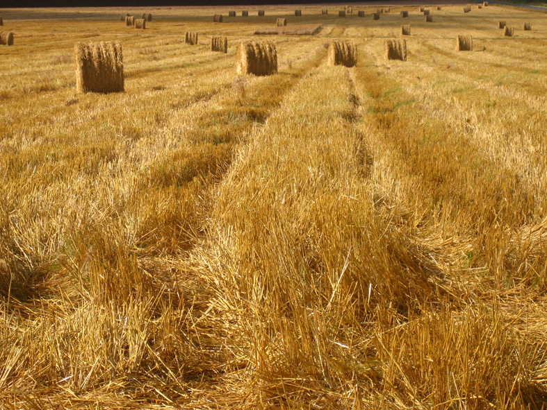 After wheat is harvested the remaining stalks are gathered for making hay. Near Sézanne (Marne, France).